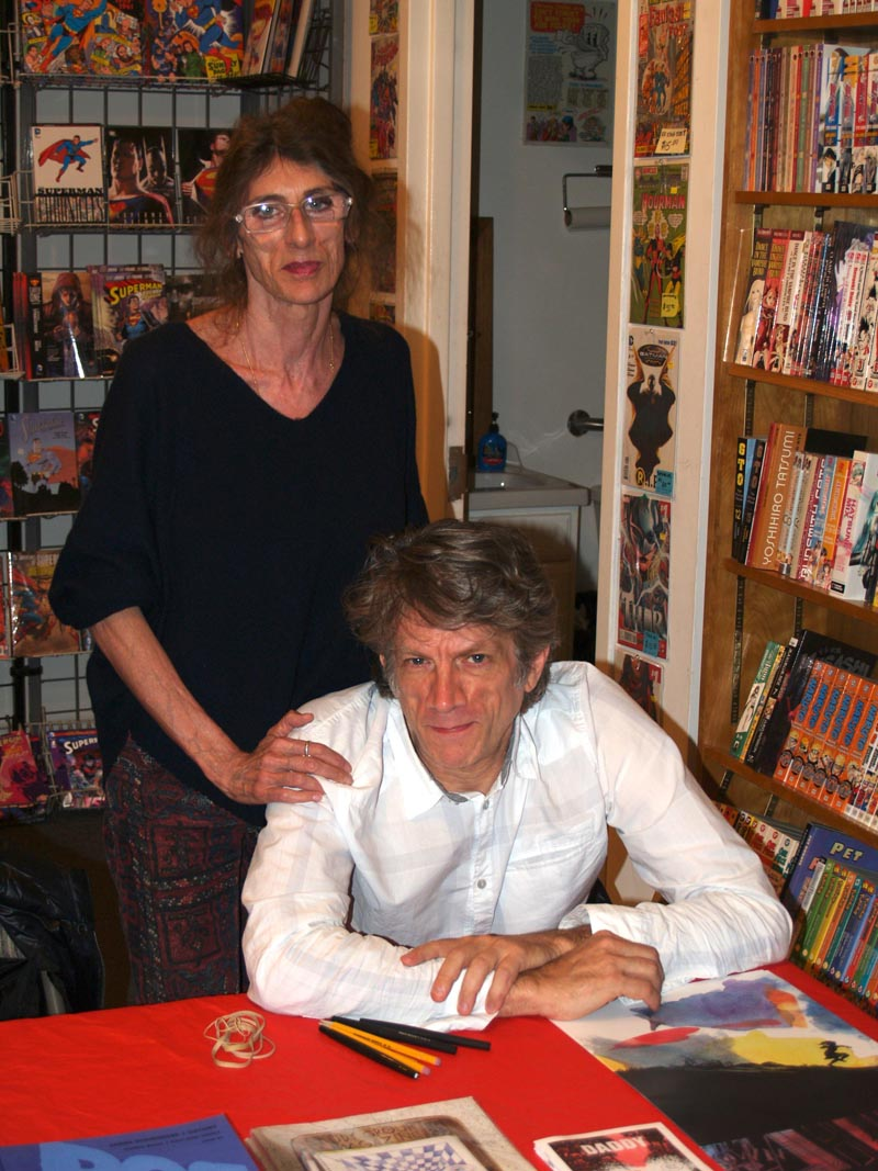 Comics creators Marguerite Van Cook and James Romberger at a November 26, 2014 book signing for The Late Child at Jim Hanley's Universe in Manhattan. This photo was created by Luigi Novi. It is not in the public domain, and use of this file outside of the licensing terms is a copyright violation.